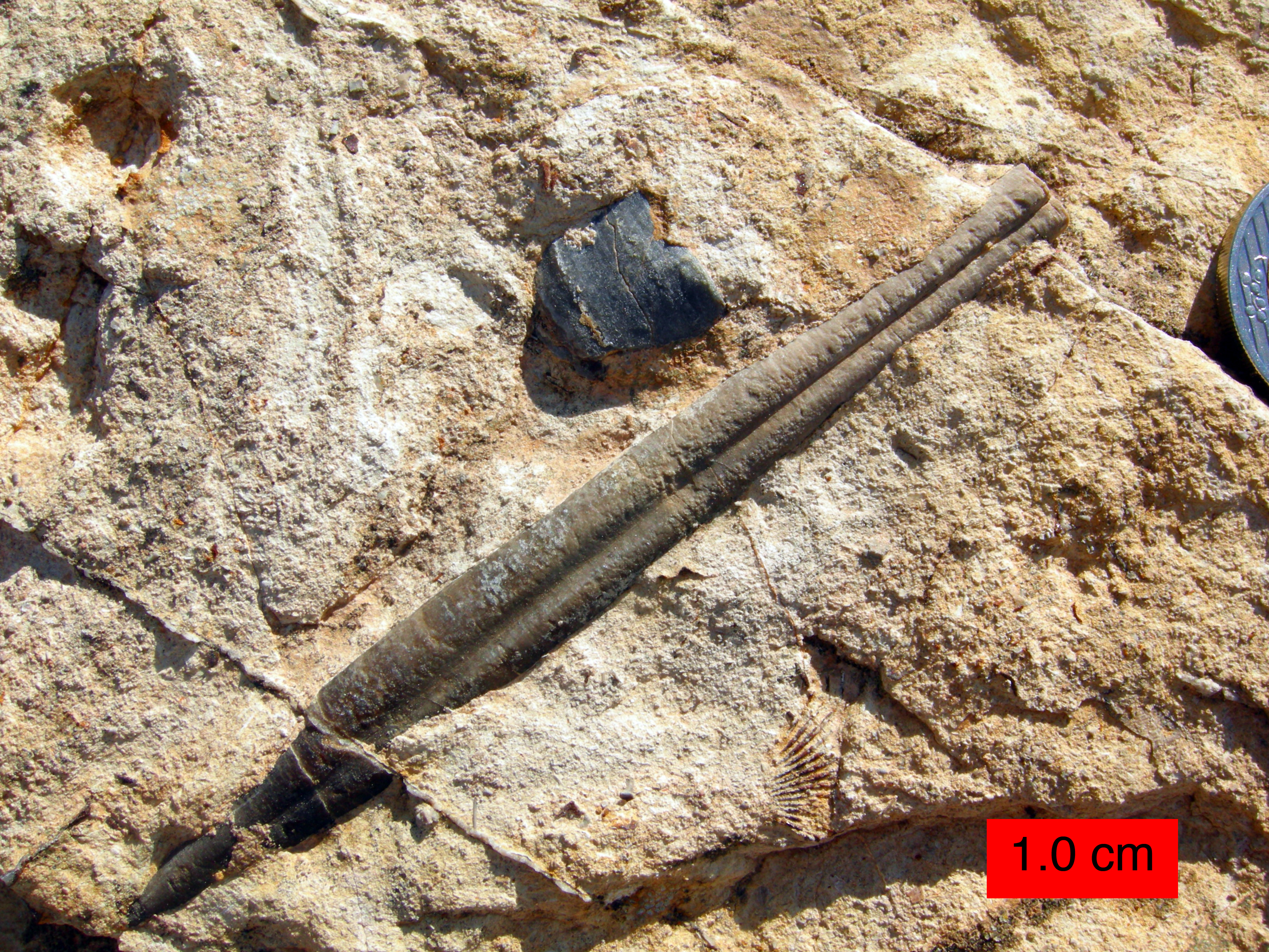 Belemnite (? Hibolithes sp.) from the Zohar Formation (Callovian, Middle Jurassic) of the Golan near Neve Atif.